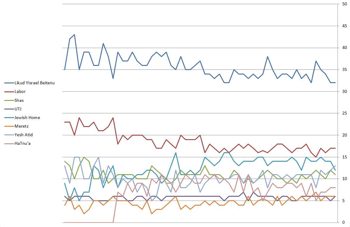 Opinion polling for the January 2013 Israeli elections, starting with the October 28, 2012 polls.